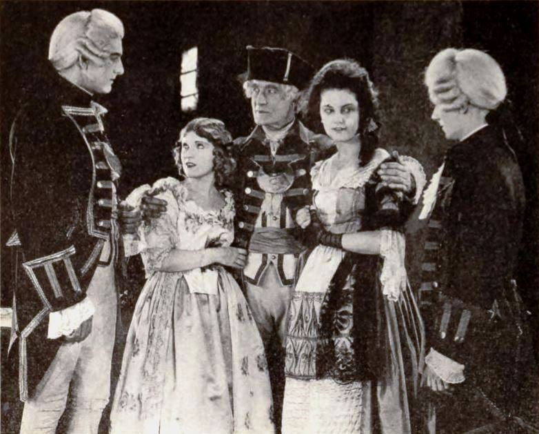 Still from American drama film The Last of the Mohicans (1920) with Henry Woodward, Lillian Hall, Sydney Deane (1863 – 1934), Barbara Bedford, and George Hackathorne, on page 70 of the October 2, 1920 Exhibitors Herald.